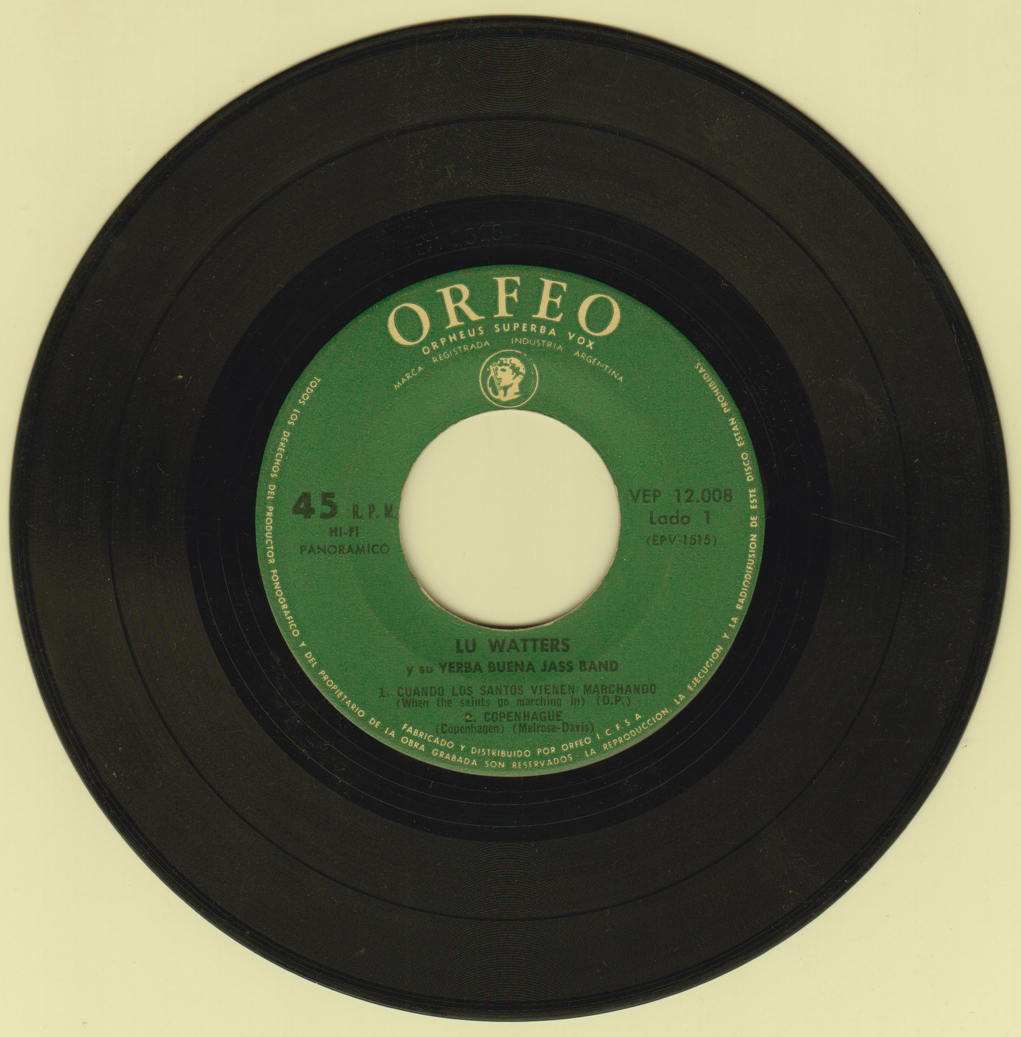 Maxi single with four tracks of the Lu Watters & Yerba Buena Jazz Band.